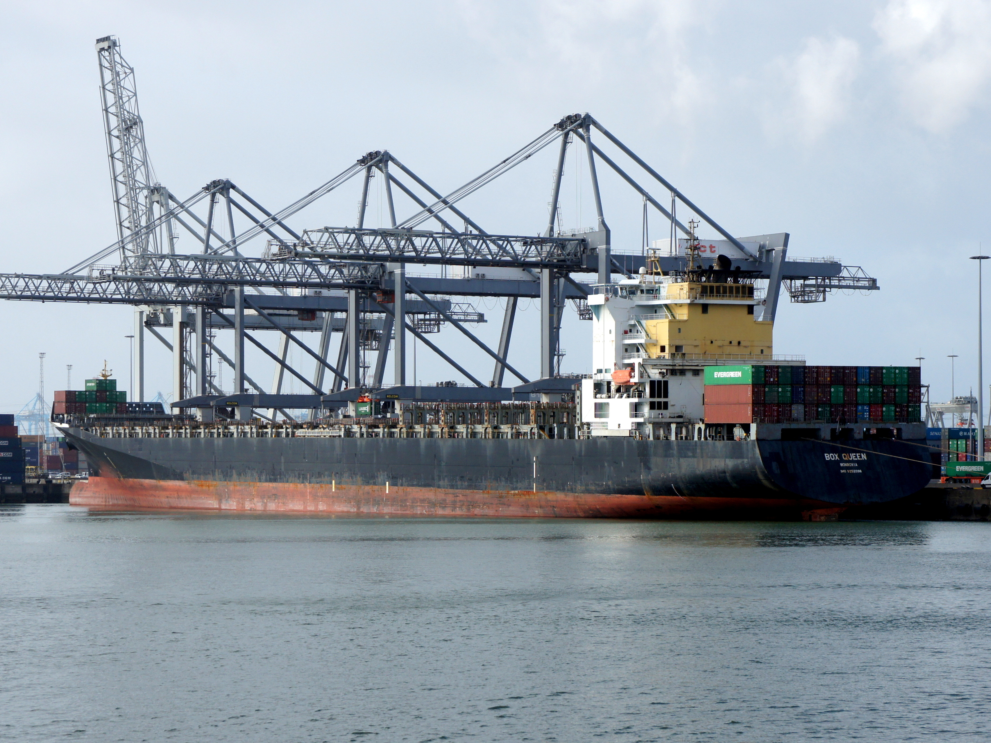 Box Queen - IMO 9252096 - Callsign DDAL 2, Amazonehaven, Port of Rotterdam.